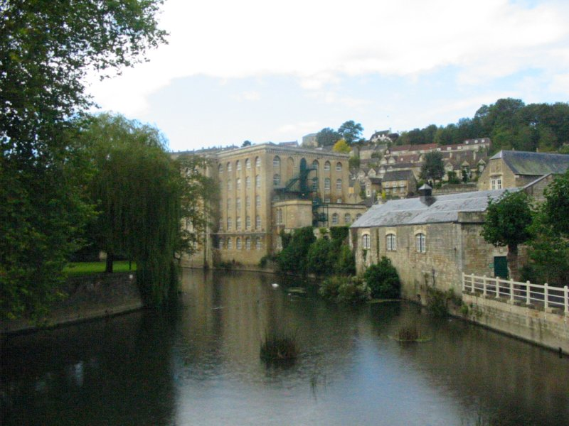 Bradford-on-Avon